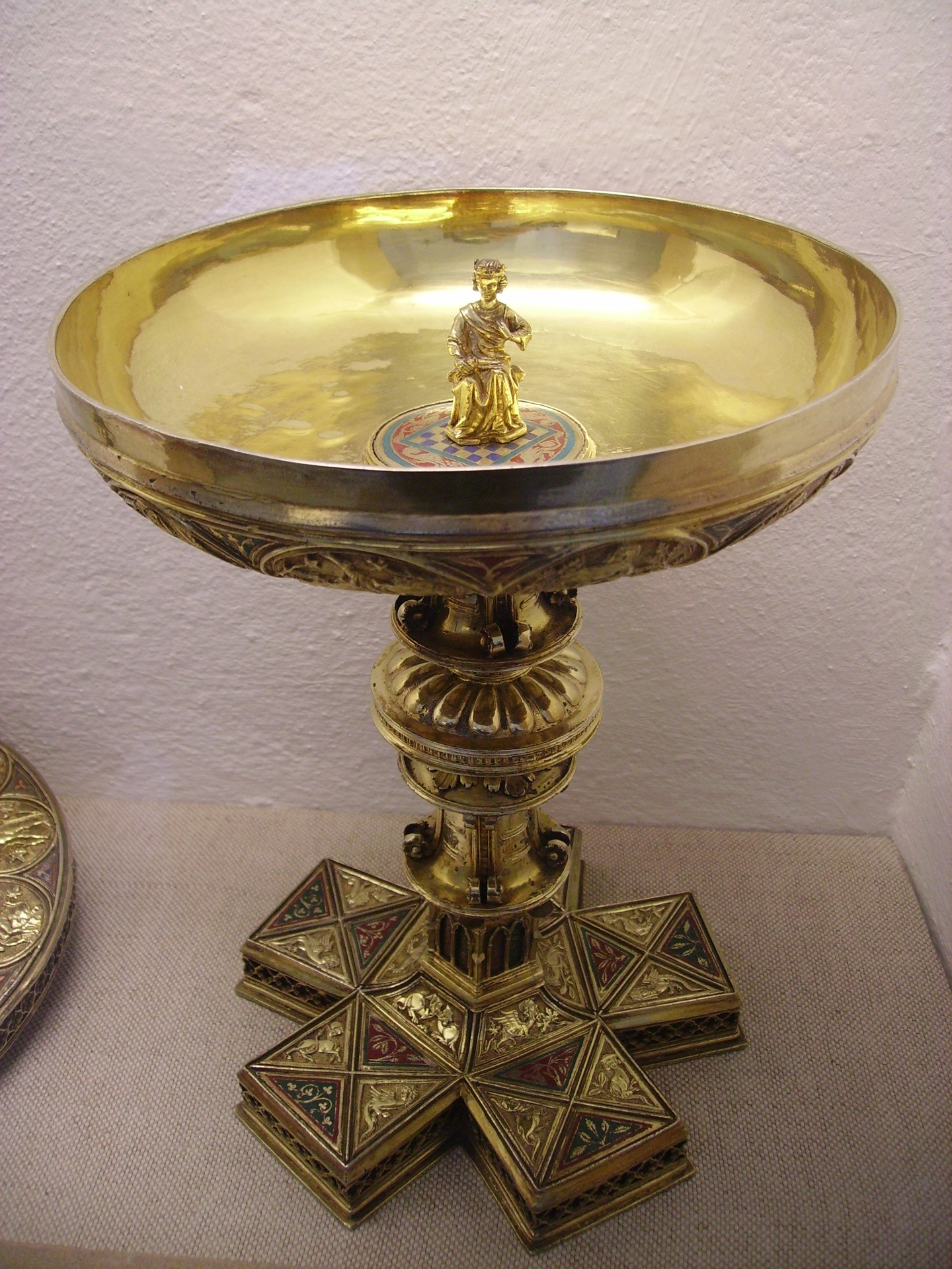 The Emperor's chalice in the treasure chamber of the town hall of Osnabrück